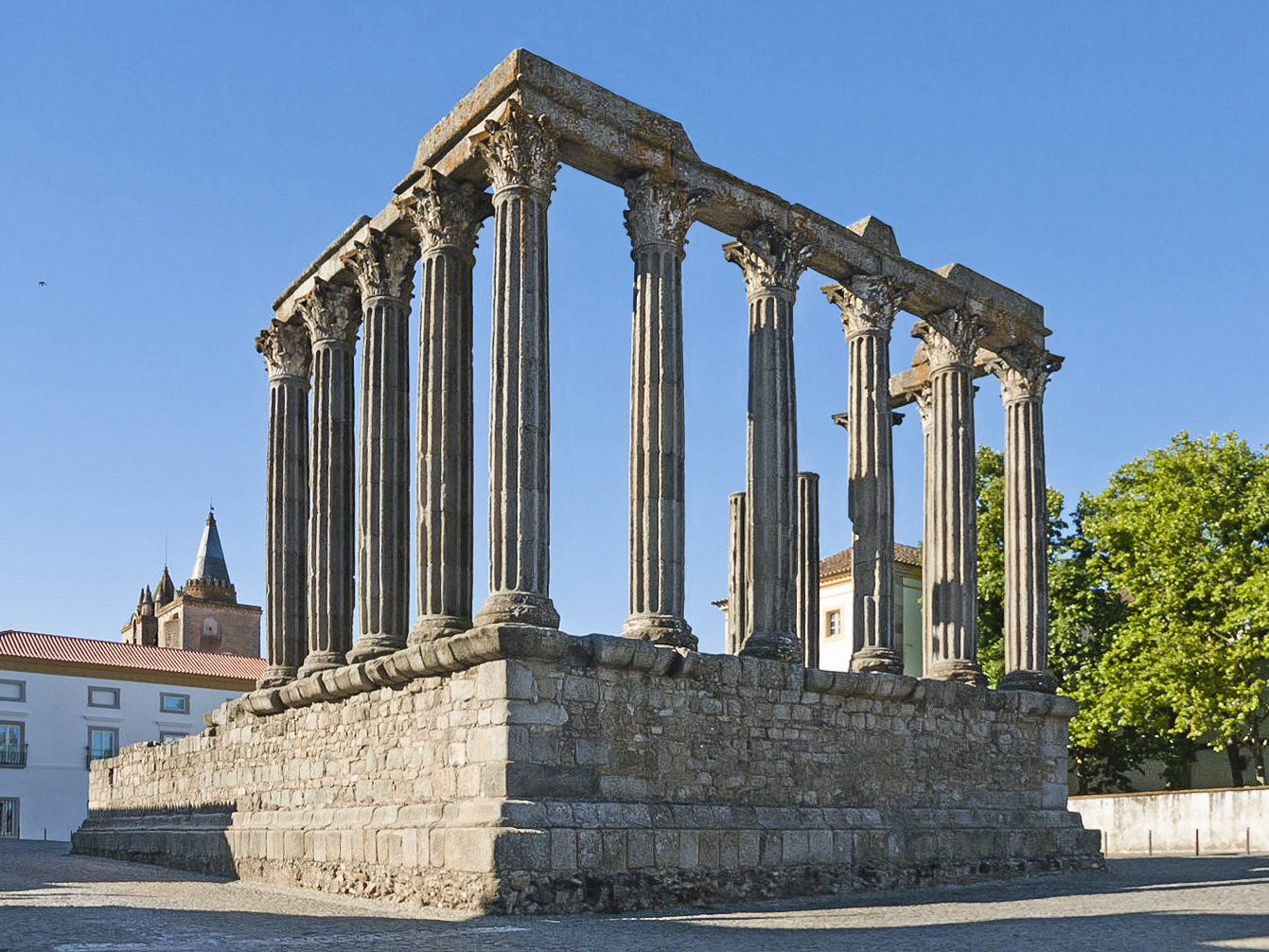 Frontal view of Evora roman temple